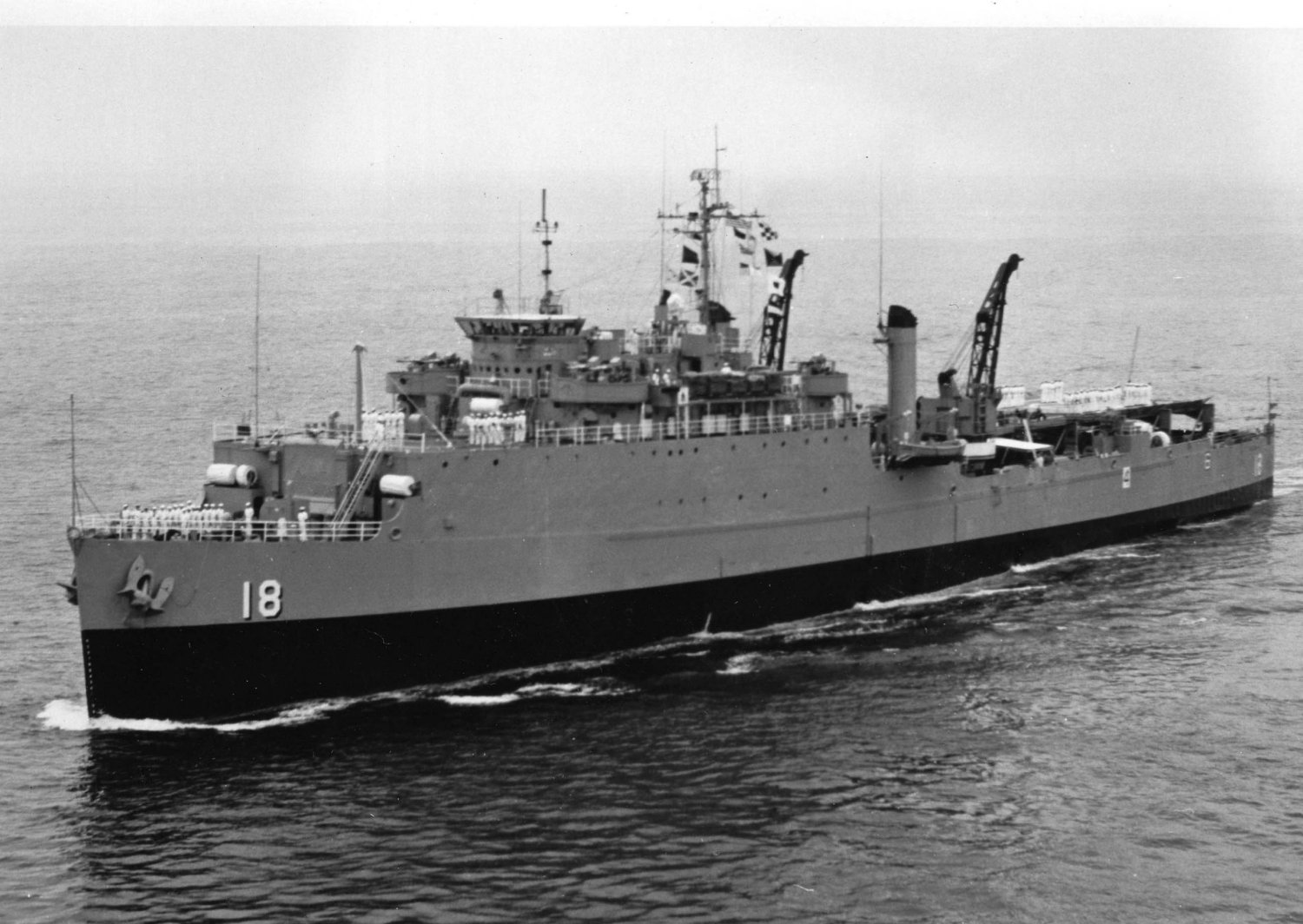 The U.S. Navy dock landing ship USS Colonial (LSD-18) underway off the Mare Island Naval Shipyard, circa 1970.